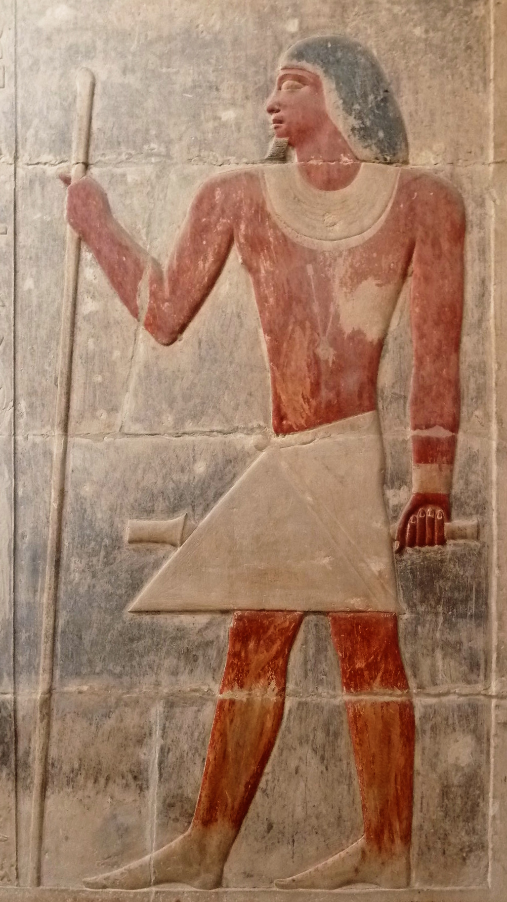 Polychrome relief of Kagemni in his own mastaba, Saqqara, Egypt. Kagemni was a vizier of pharaos Djedkare Isesi and Unas (5th dynasty), and Teti (6th dynasty), 24th century BC.